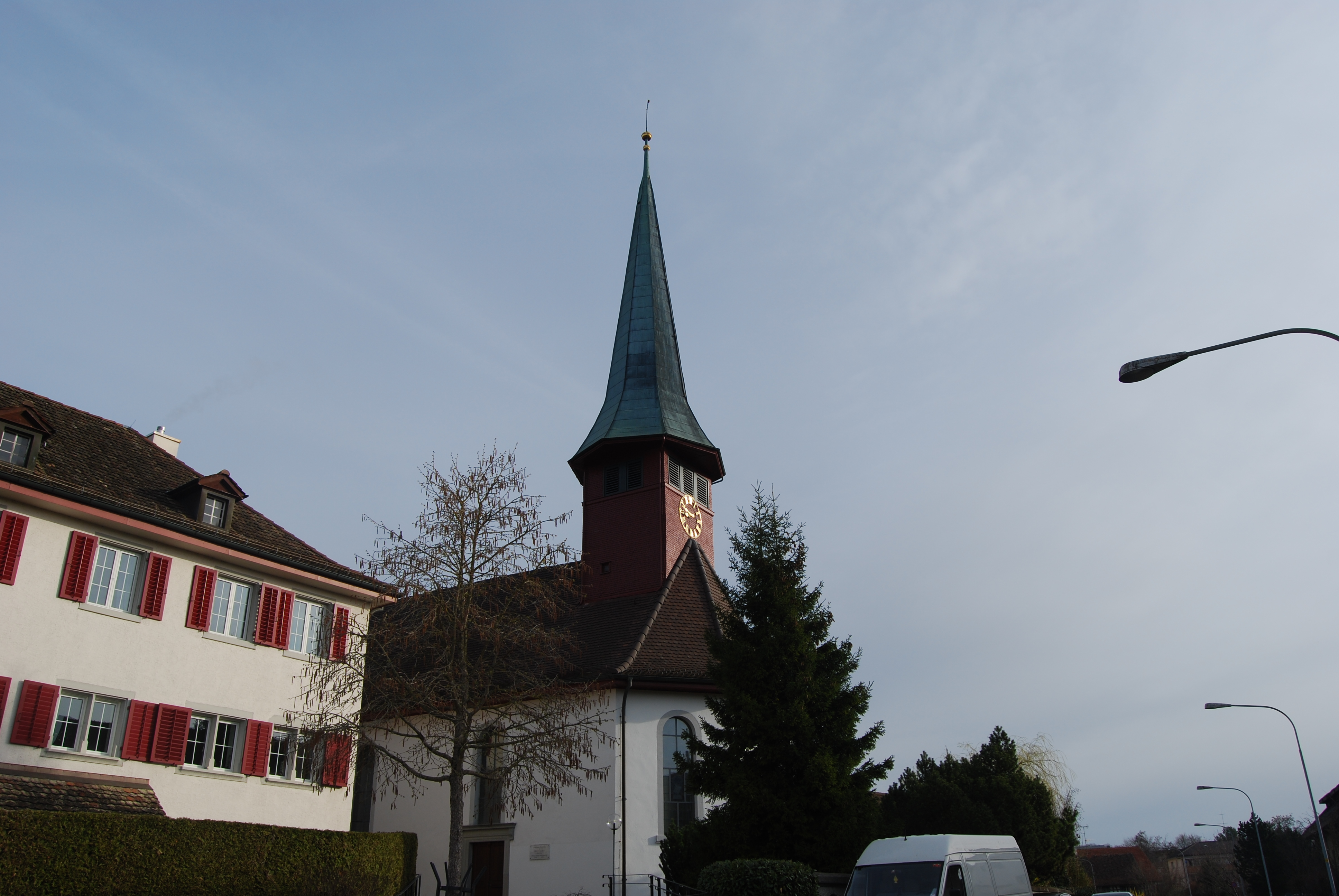 Church of Niederhasli, canton of Zürich, SwitzerlandEsperanto: Preĝejo de Niederhasli, Kantono Zuriko, Svislando